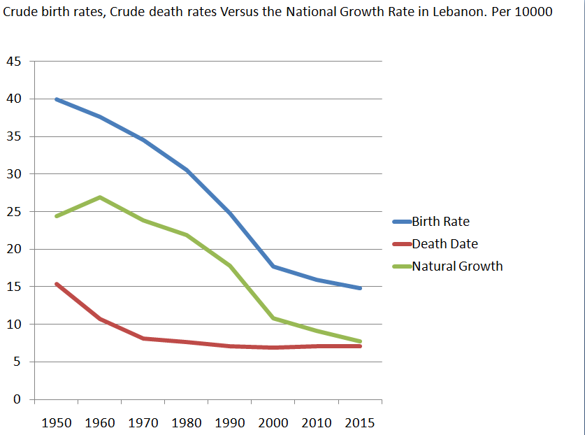 PowerPoint self work.